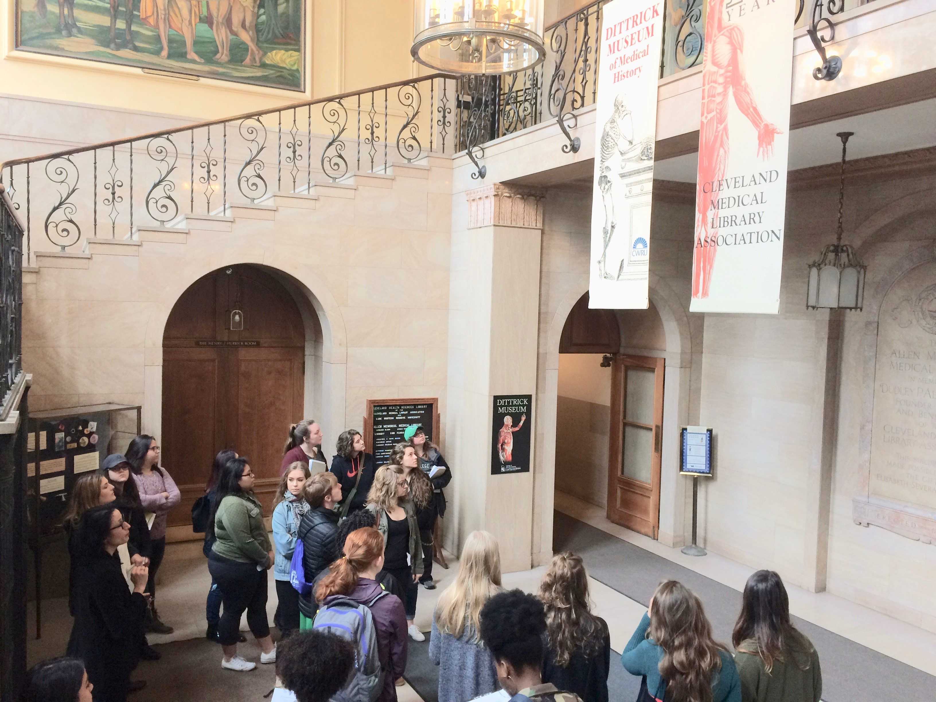 Picture of the entrance of the museum